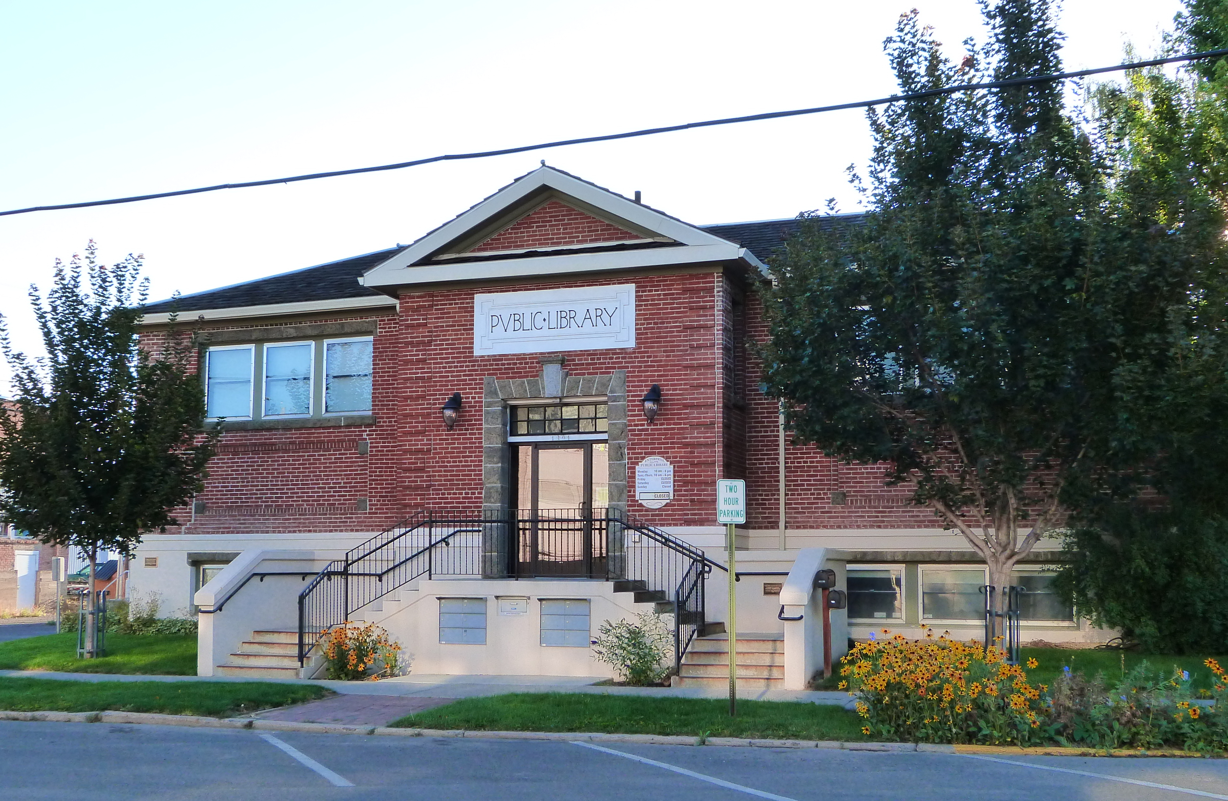 The historic Enterprise Public Library, located at 101 Northeast 1st Street in Enterprise, Oregon, United States, is listed on the US National Register of Historic Places.